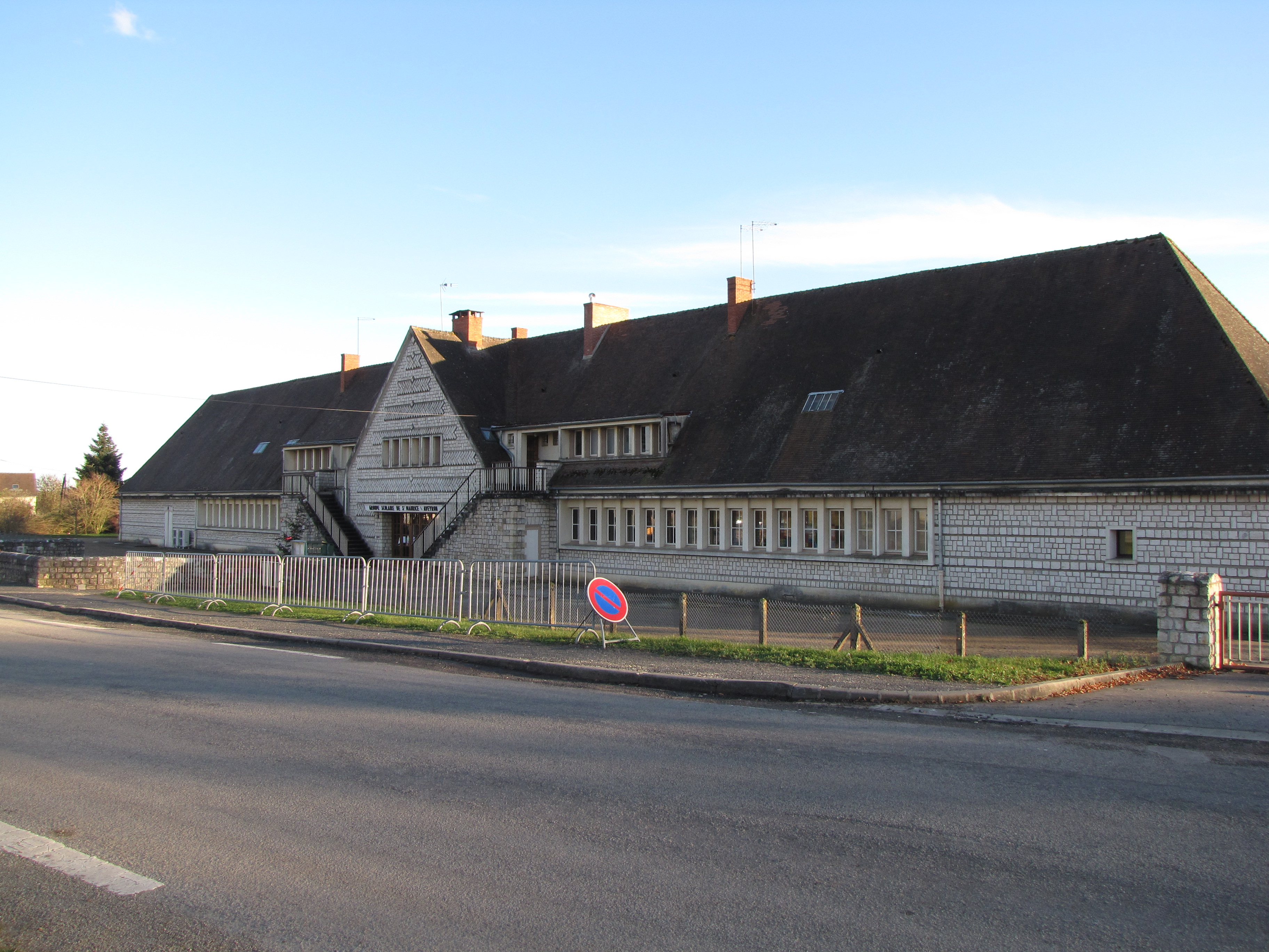 Saint-Maurice-sur-Aveyron, Loiret, Centre region, France. The school, north view (front side), route de Charny (D56). The swimming pool is on the left of the building, behind it in this photo.